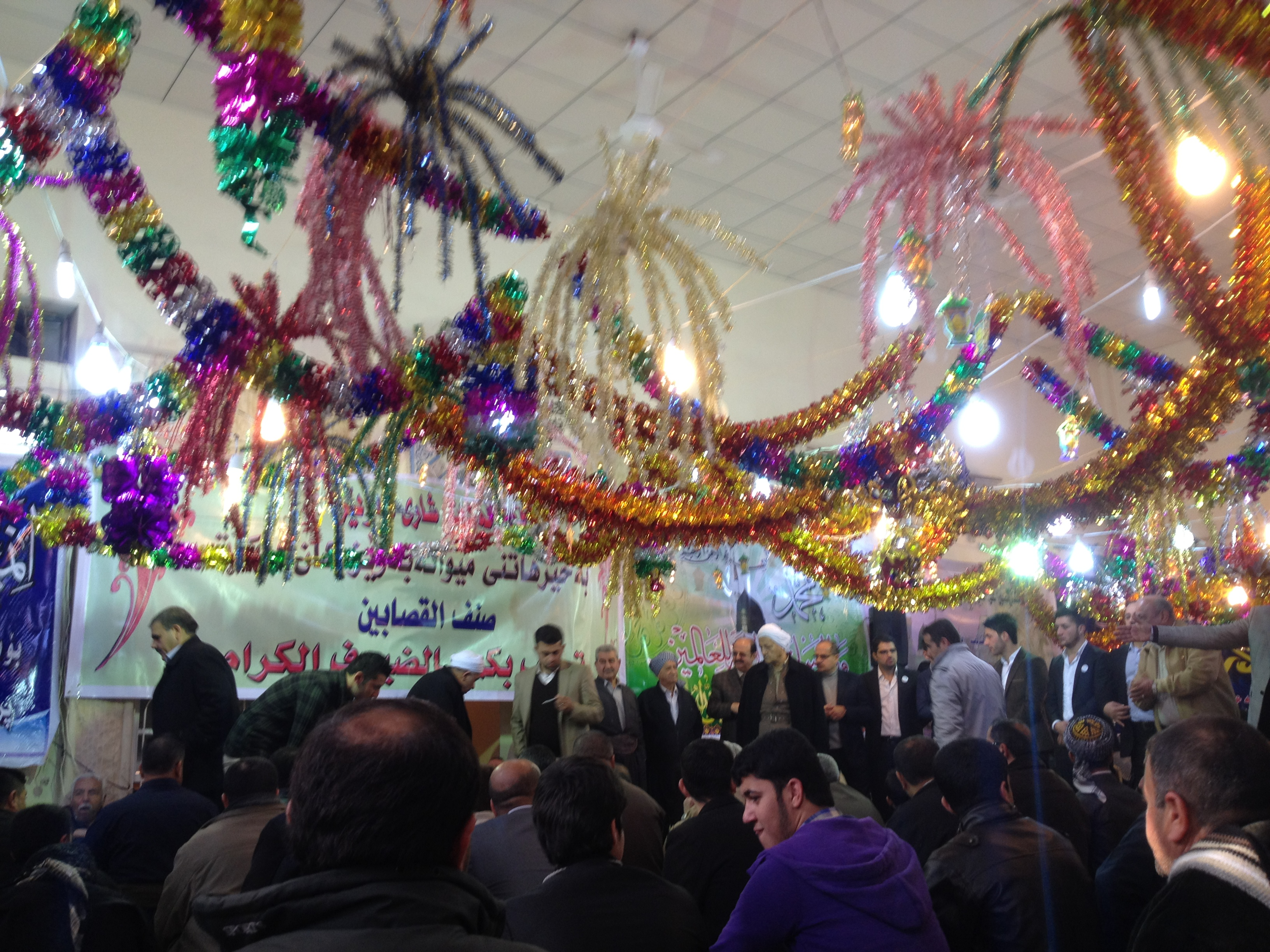 Mawlid Muhammad Prophet in Iraqi Kurdistan